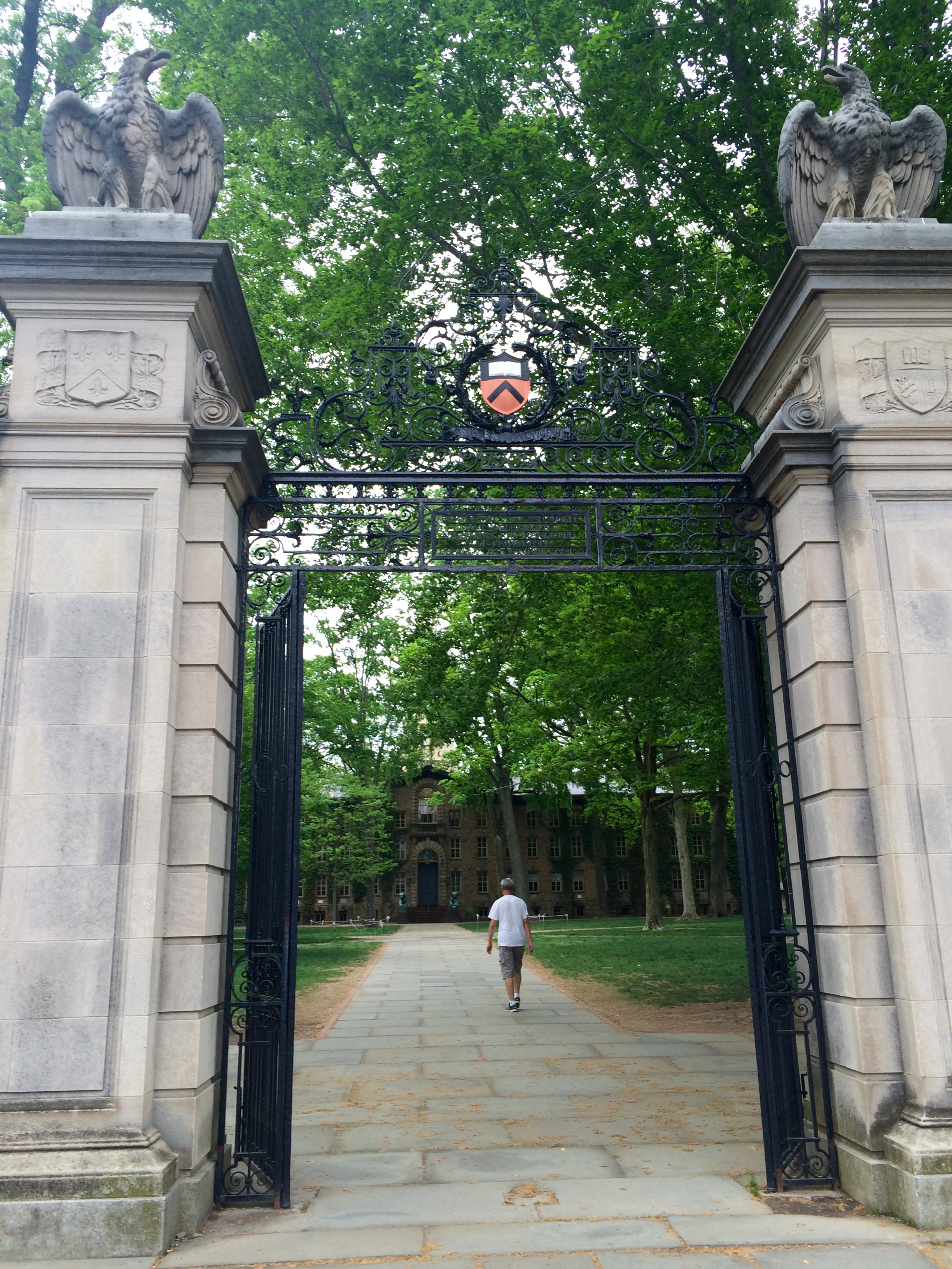 FitzRandolph Gate, the ceremonial entrance of Princeton University, with Nassau Hall.